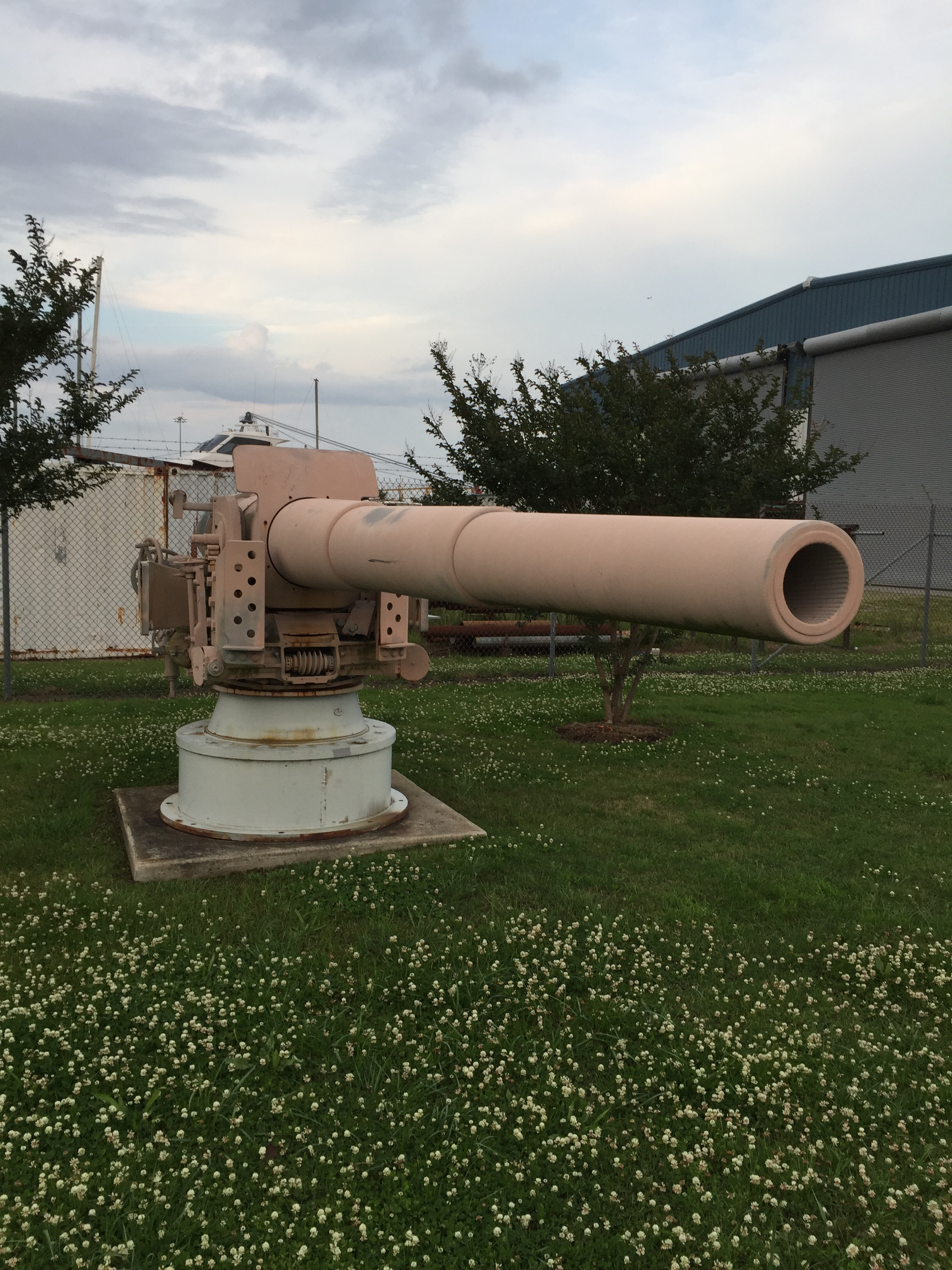 According to the data plate on this gun, it is a 5.9 inch According to the data plate on this gun, it is a 5.9 inch German naval gun, and was manufactured in 1909. It was mounted on the German cruiser Ostfriesland. At the end of WWI this gun was removed from the vessel and taken to the United States as a war trophy. The ship it was taken from, the Ostfriesland, was later sunk by U.S. military aircraft in 1921 during experiments to assess the effectiveness of aircraft against major warships.